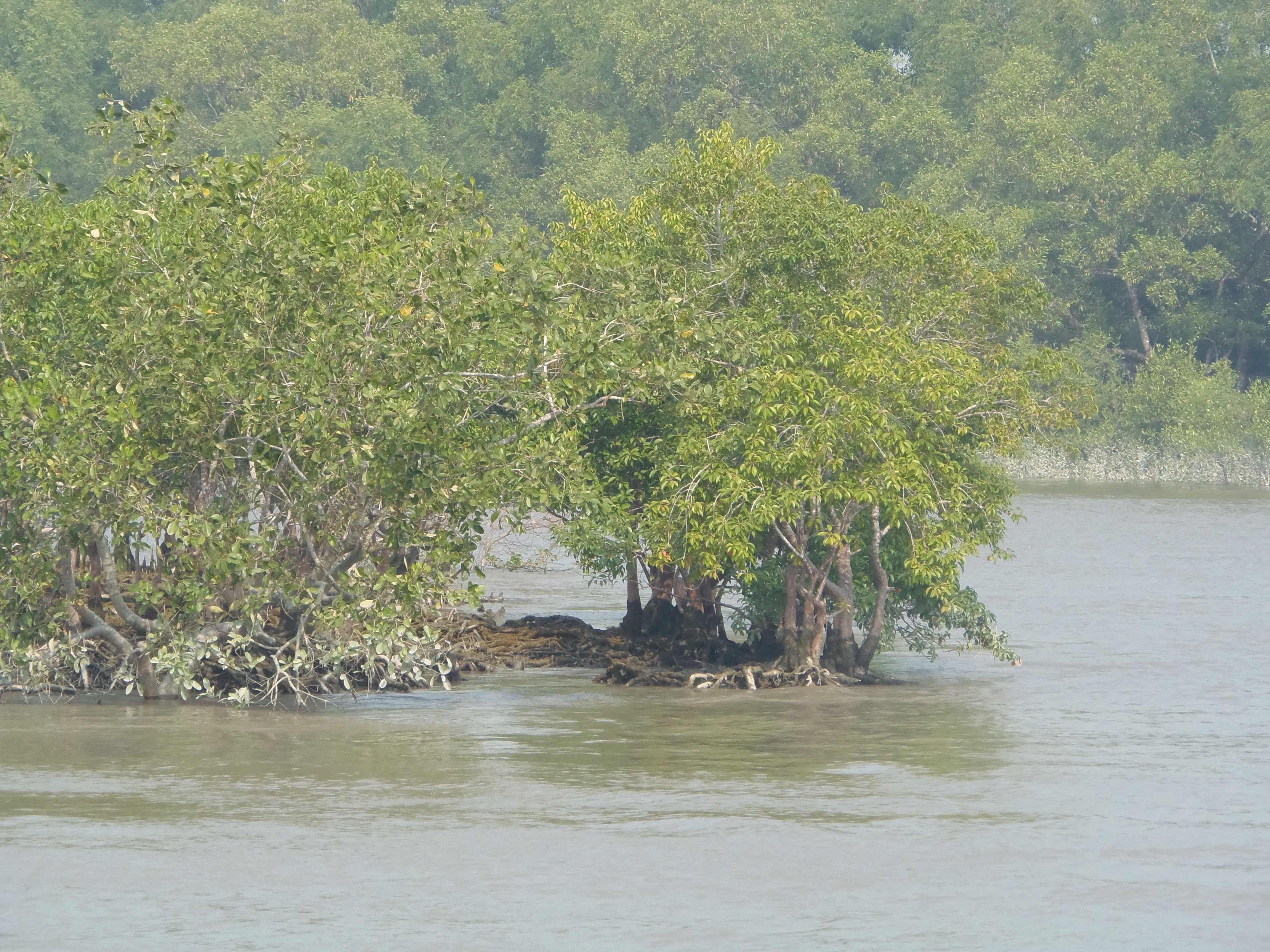 This picture was taken from a boat while traversing the river in sundarbans. This image shows what exactly the forest cover looks like during low tides. During high tides the roots of the mangrove are completely submerged.